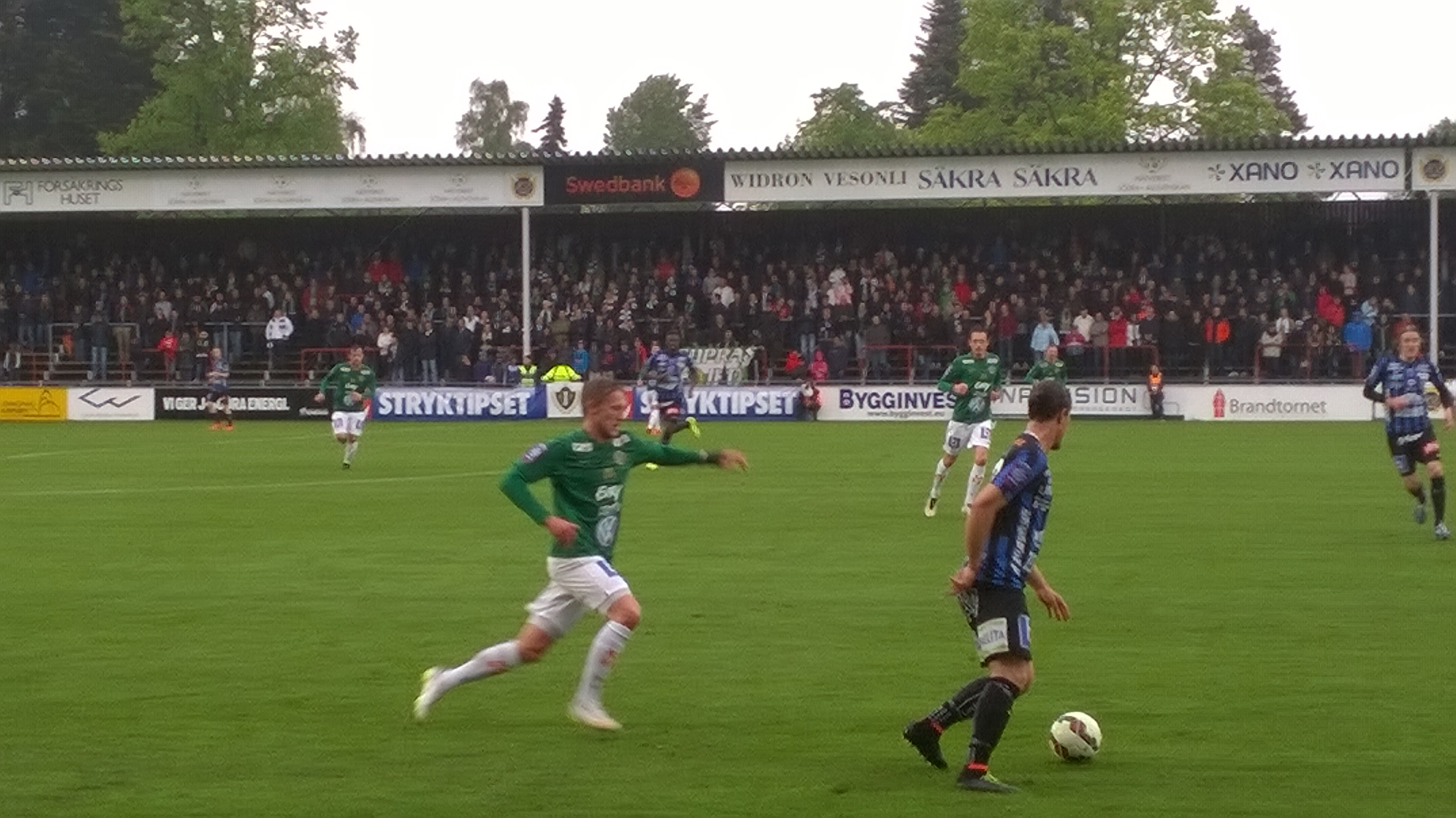 Superettan men's soccer game Jönköpings Södra IF-IK Sirius (1-1) at Stadsparksvallen in Jönköping, Sweden. 2 June 2015